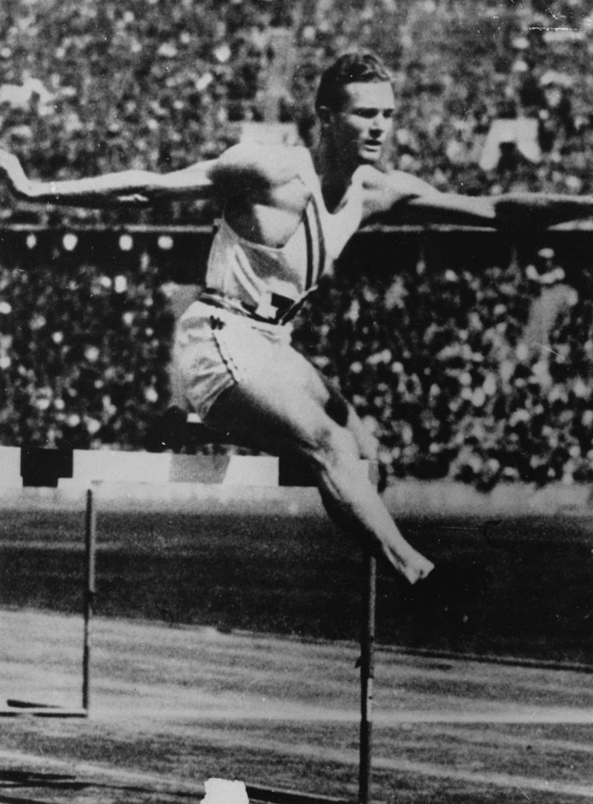 Glenn slats hardin jumping hurdles for LSU Louisiana State University